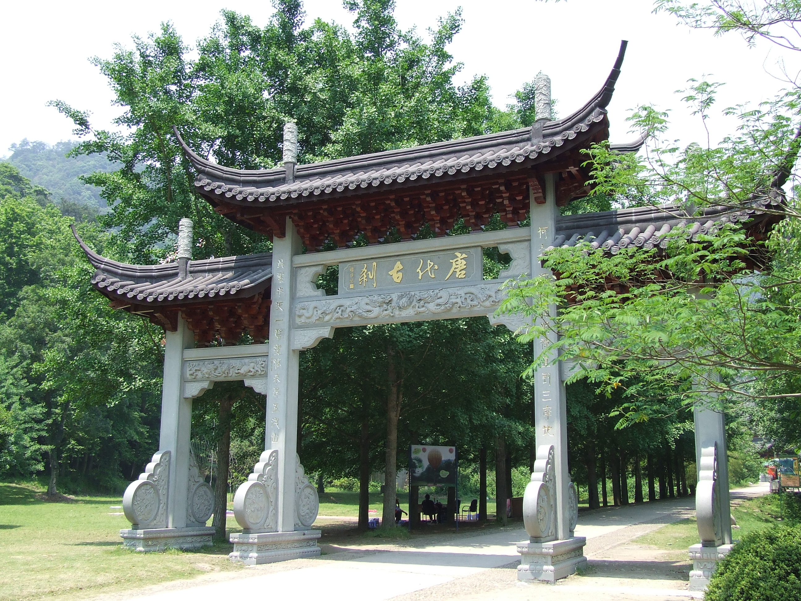 WuXieTemple — Zhuji, Zhejiang.